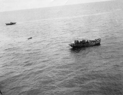 Japanese evacuate boats Chihaya Maru No.1 and Chihaya Maru No.5 under air attack by U.S.Navy PB4Y.